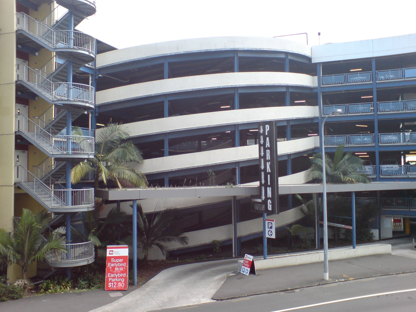 A car park building in the Auckland CBD, Auckland City, New Zealand.